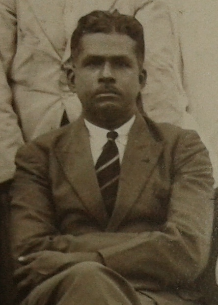 Photograph of Sir Bennet Soysa (1889-1981)